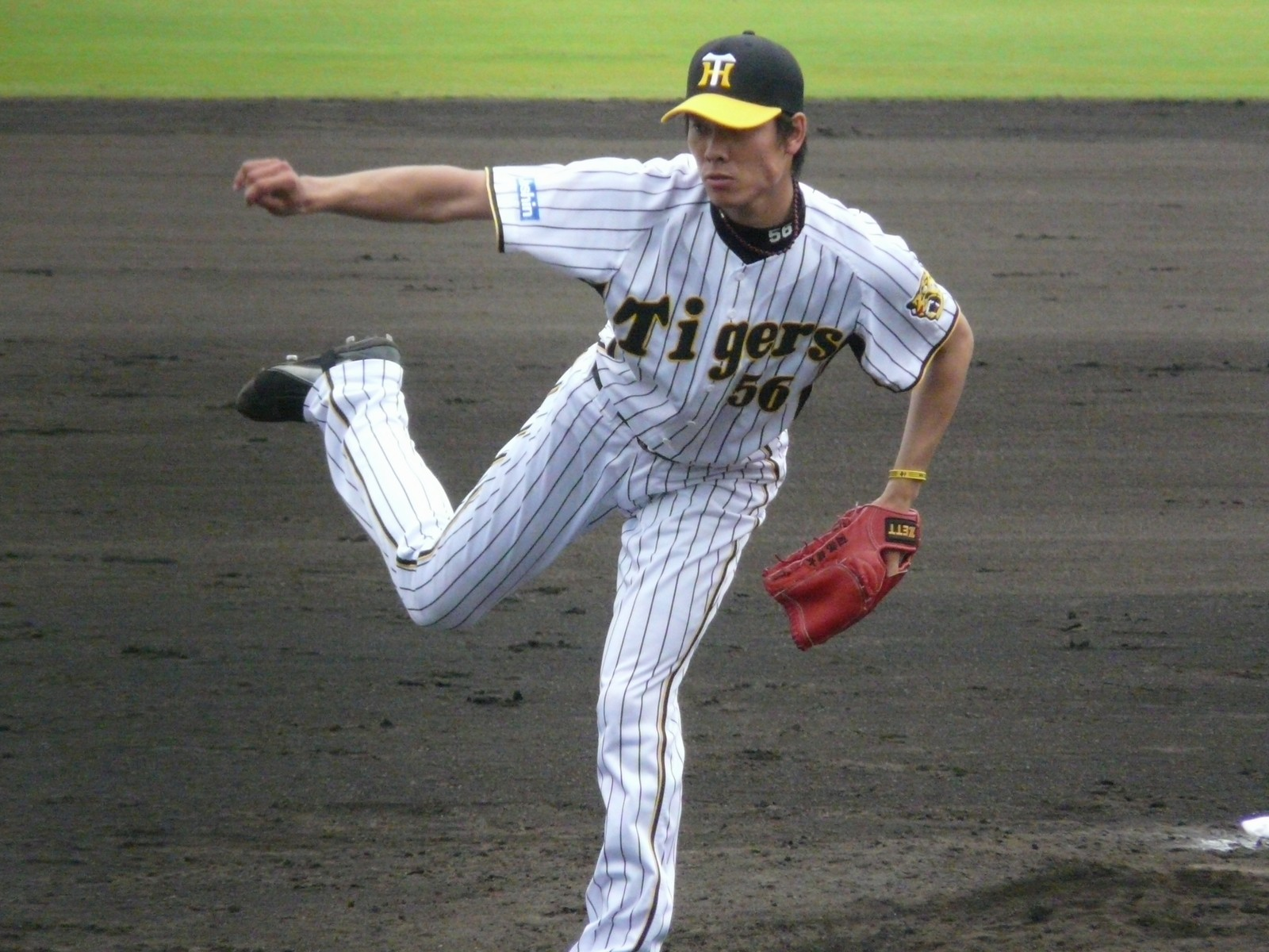 Kenta Abe, pitcher of the Hanshin Tigers, at Hanshin Naruohama Baseball Ground.